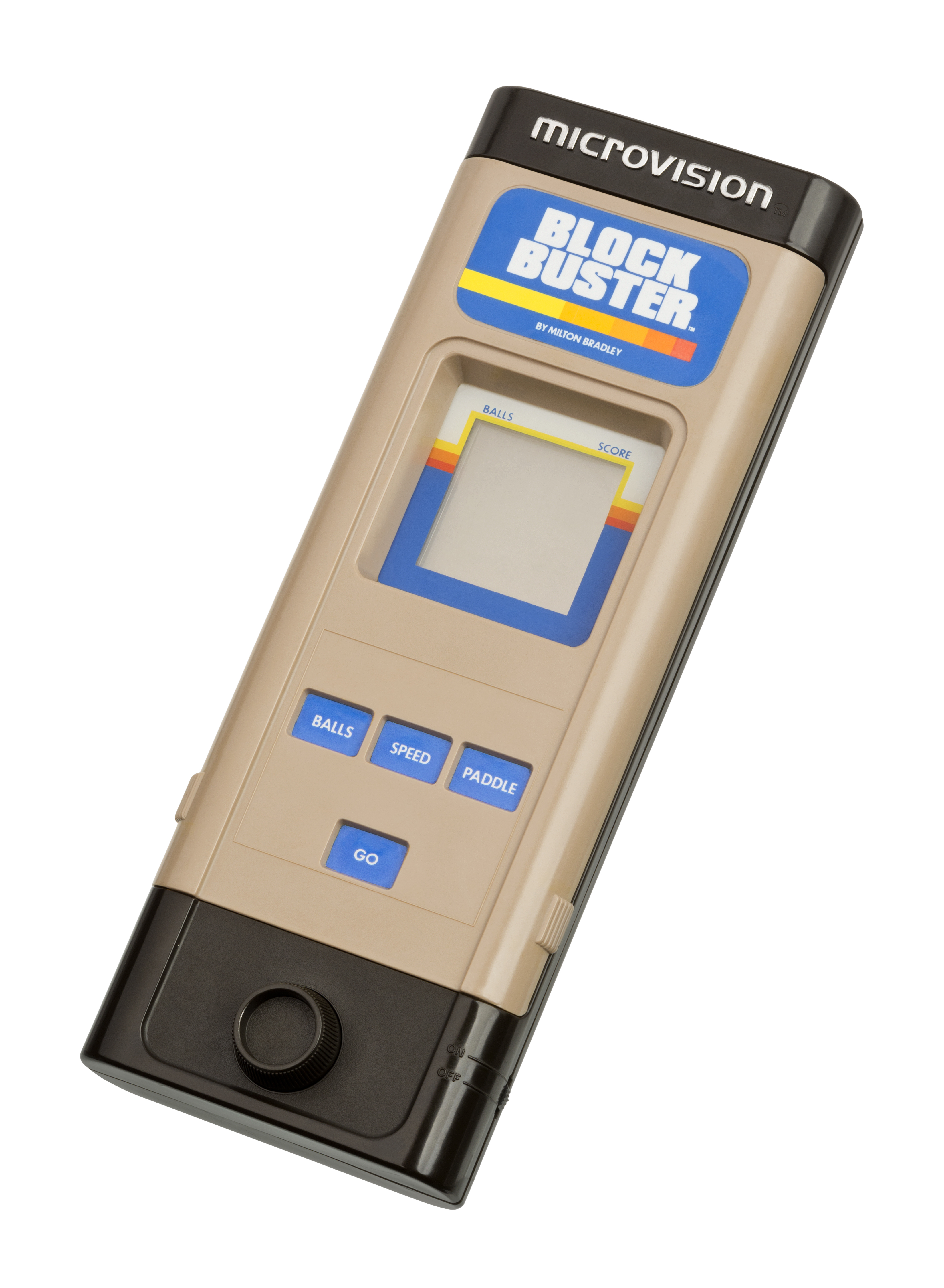 The back of the Milton Bradley Microvision, the first handheld gaming console released in 1979. Built around a 16x16 LCD screen, a grid of touch controls and a paddle, the Microvision could play very simple games. These games came on interchangeable face plates that stored the main processor and custom overlays. The system's limitations lead to little support after the initial launch, and the Microvision was discontinued by 1981.